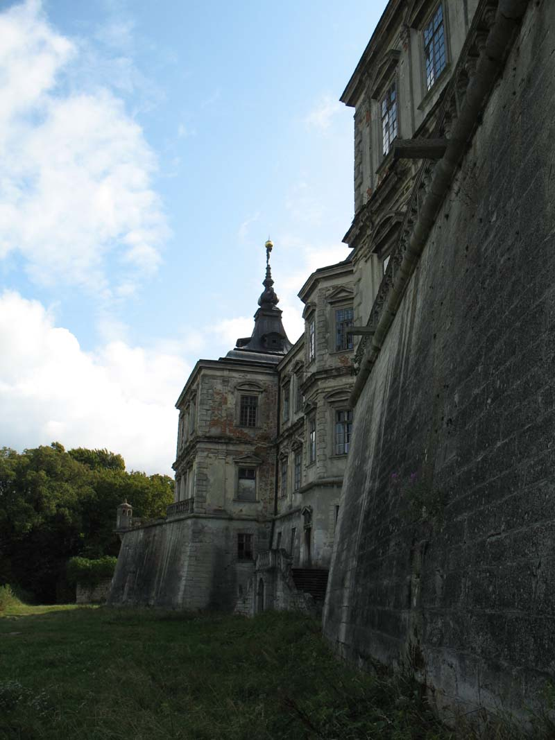 Pidhirtsi (Ukrainian: Підгірці